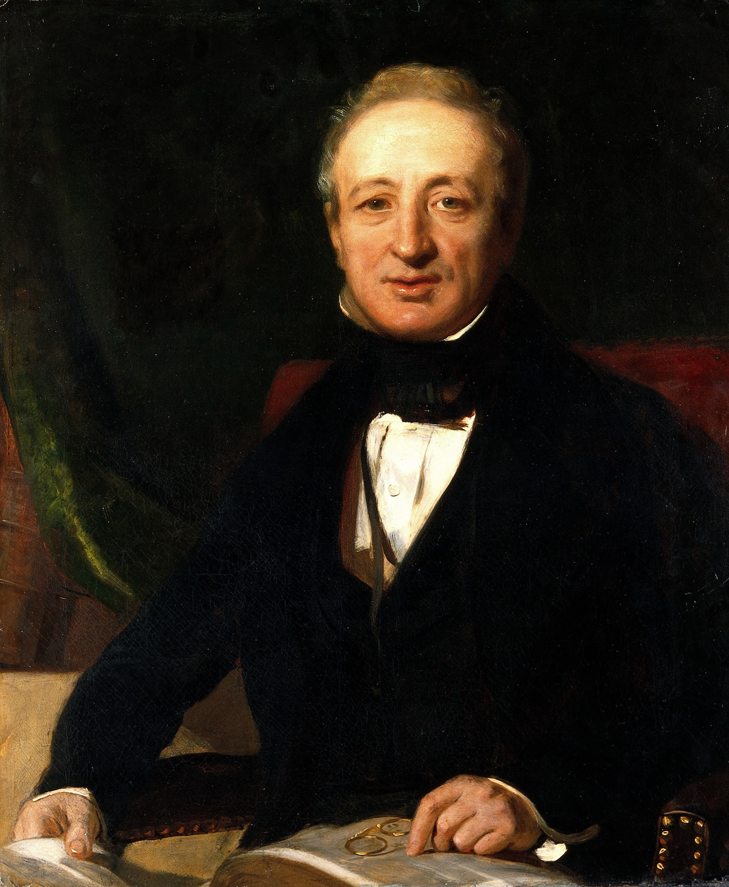 Sir John Fisher. Oil painting by John Prescott Knight. Size: canvas 77 x 64 cm